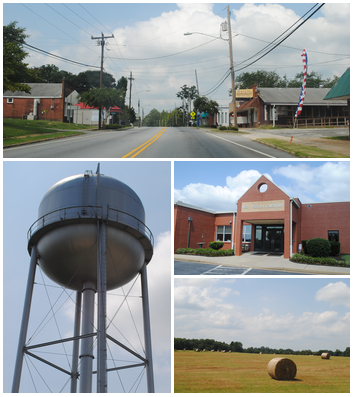 Photos I took around West Pelzer, SC